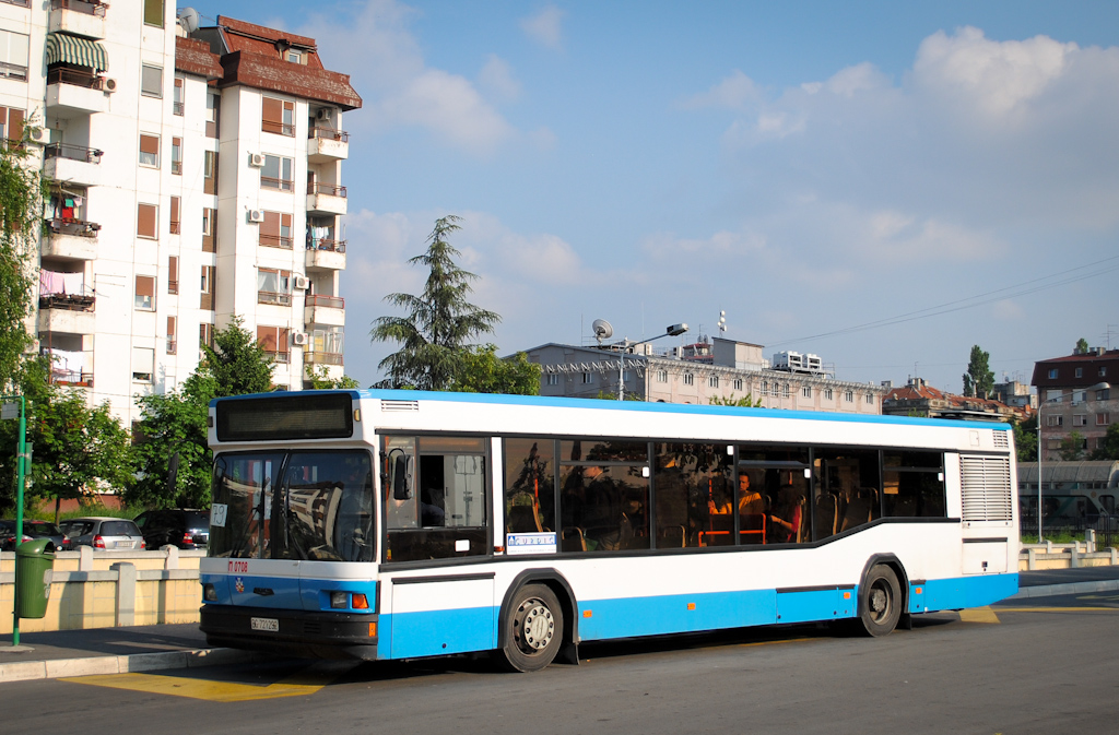 MAZ 103 owned by private company Churdich on city line 79Unknown